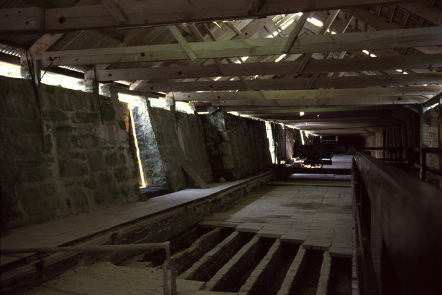 Wheal Martyn - the dry The inside of the drying shed, known as a "dry". The floor in the foreground has been lifted to show the underlying flues through which the hot gases passed.